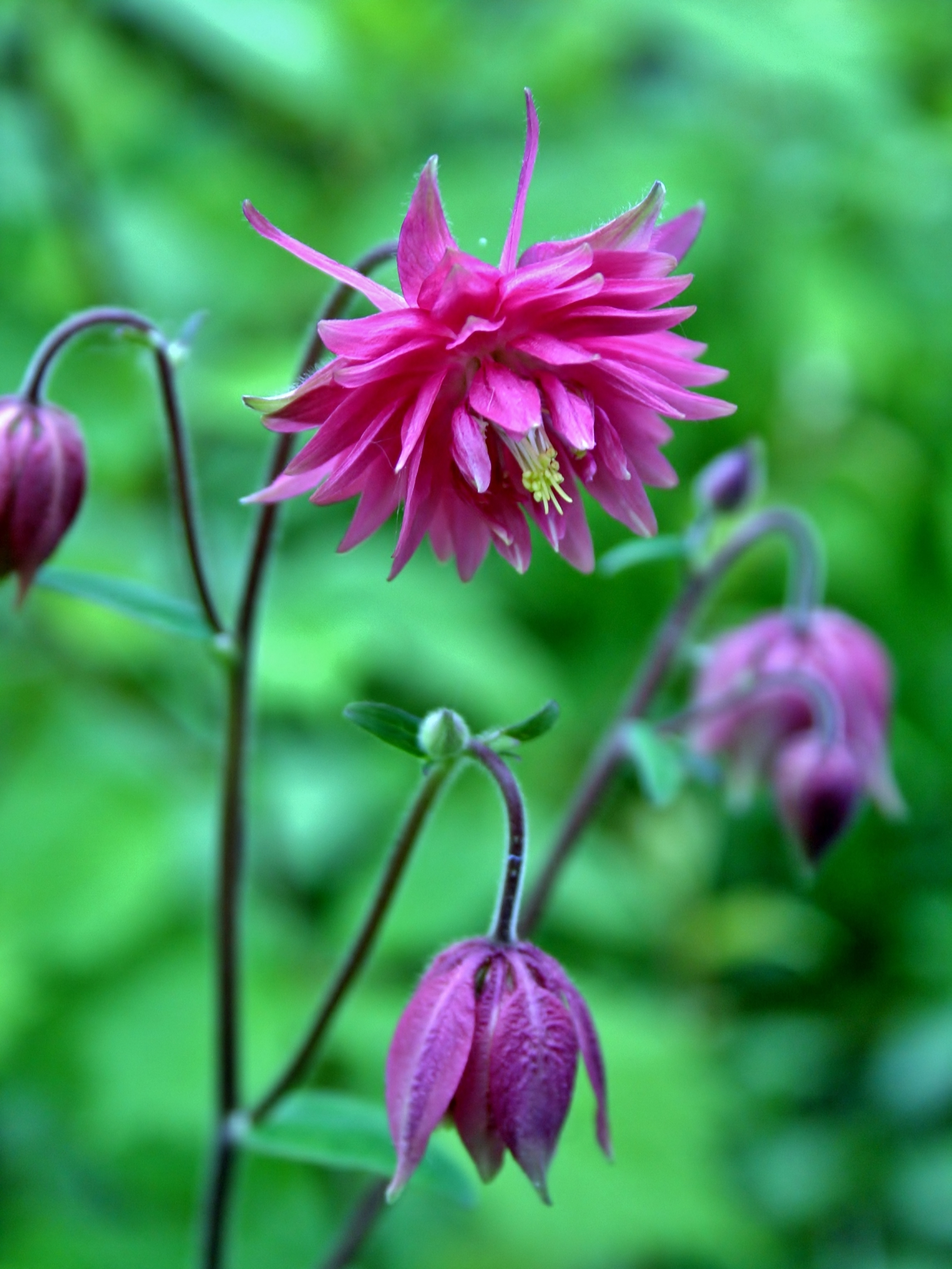 Aquilegia vulgaris - full flower